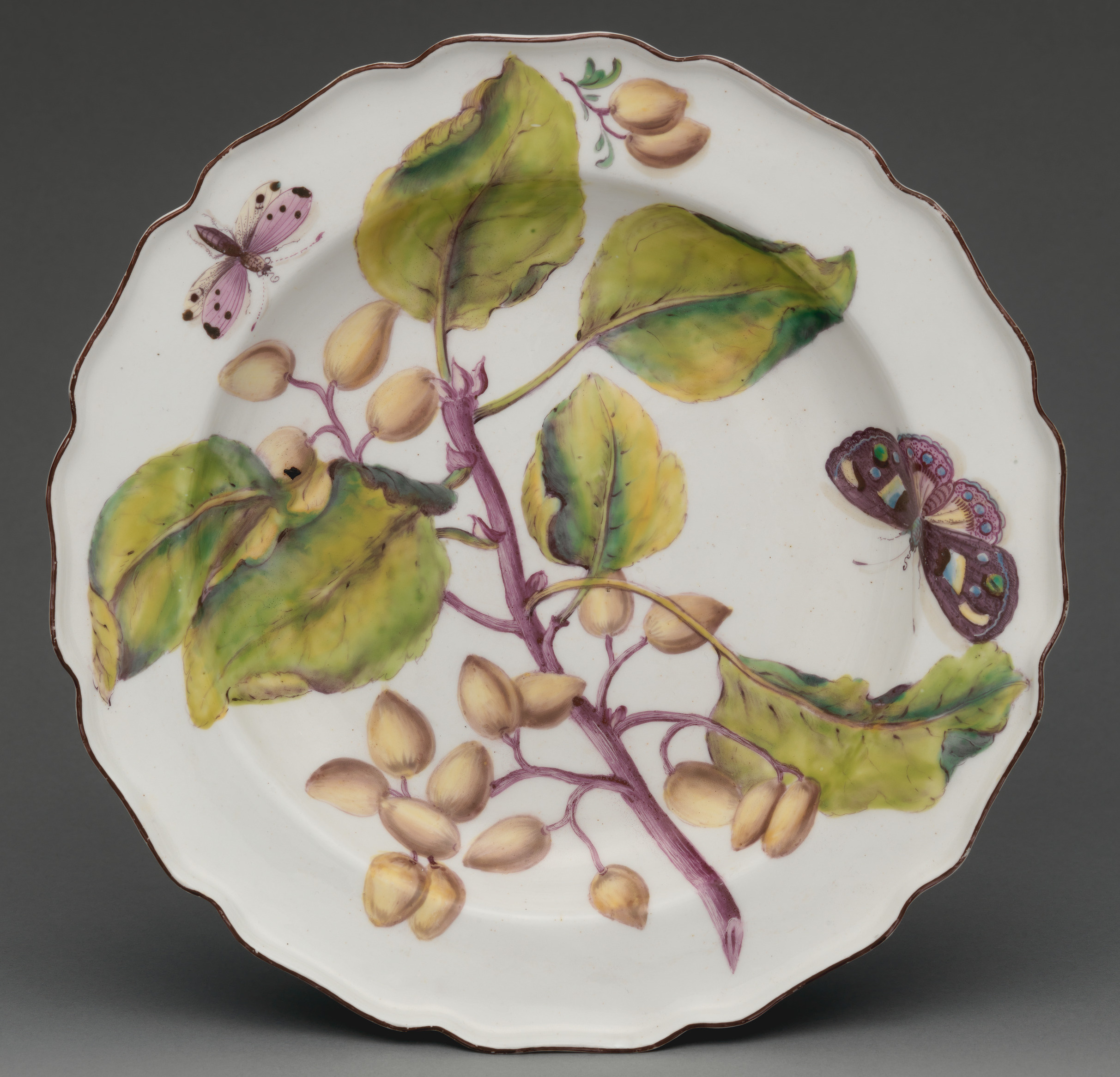 British, Chelsea; Plate; Ceramics-Porcelain